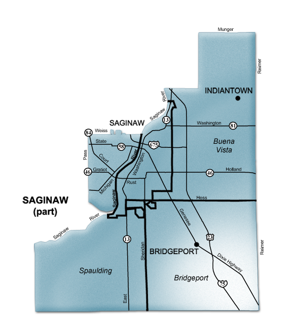 Michigan's 95th State House District currently includes: The City of Saginaw, Buena Vista, Bridgeport and Spaulding Townships.